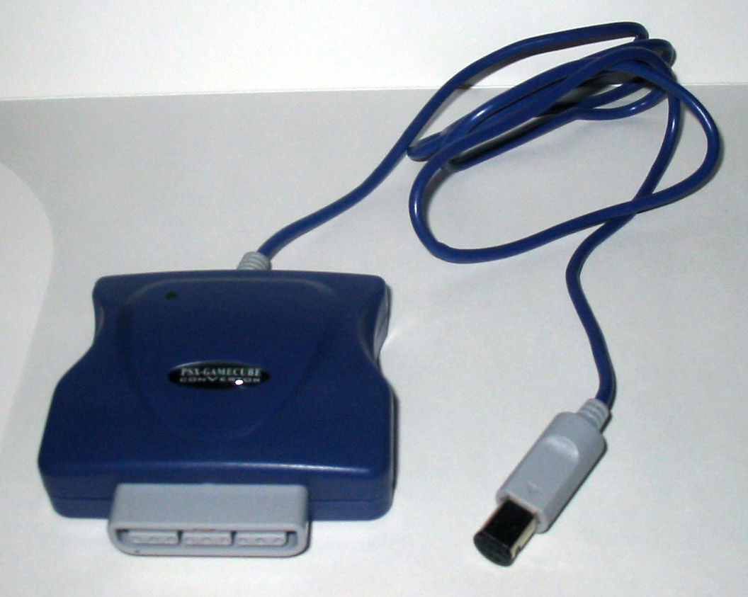 Gamecube Smartjoy. Allows to connect the PlayStation 1 or 2 controller to the Gamecube. It is not an official nintendo product. Developed by Hais.